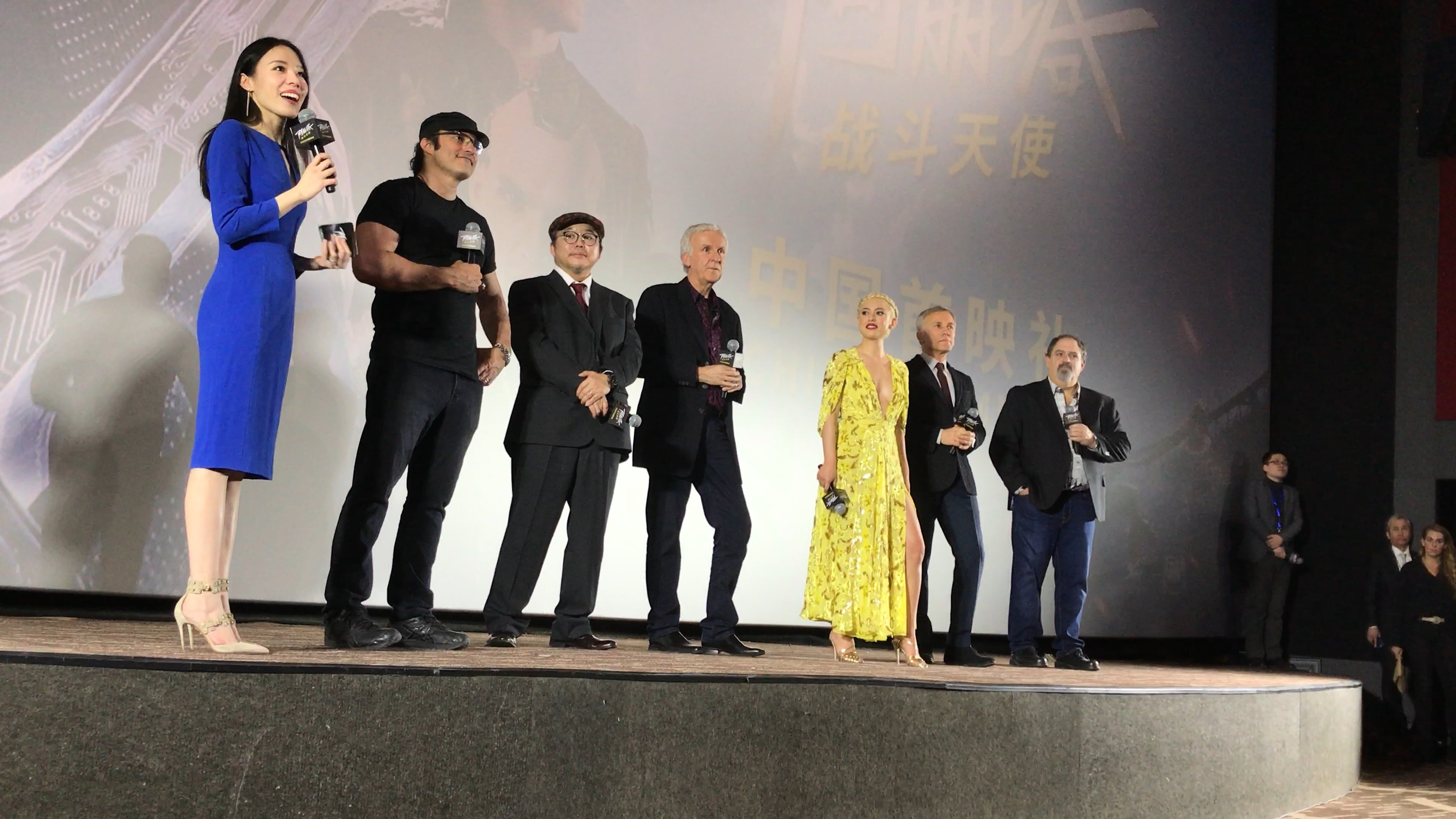 China premiere of Alita: Battle Angel at Beijing Wanda CBD Cinema.